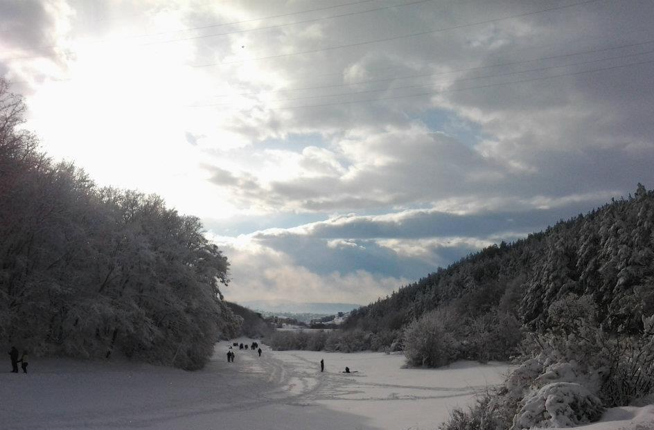 Ditë e bukur dimri në Parkun Gërmia